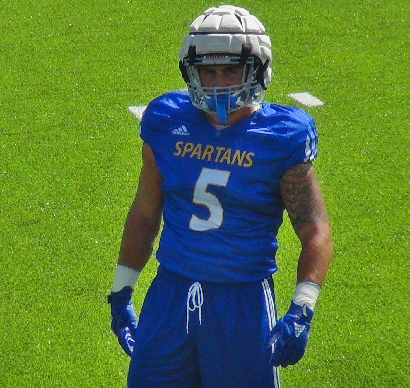 San Jose State linebacker Frank Ginda during 2017 fall camp at CEFCU Stadium in San Jose.